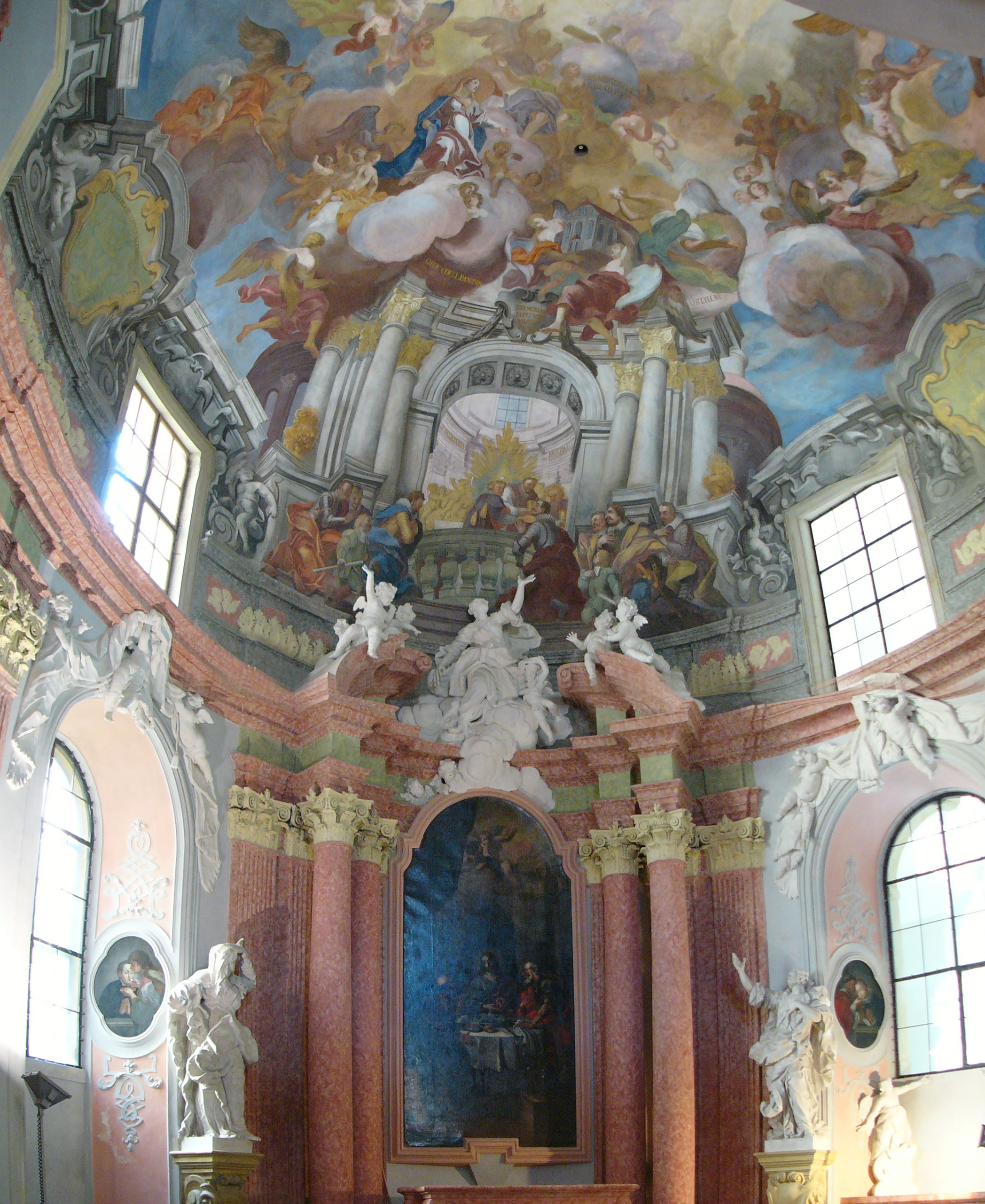 Baroque sculptures and paintings in Kaple Božího těla chapel in Olomouc (Czech Republic).